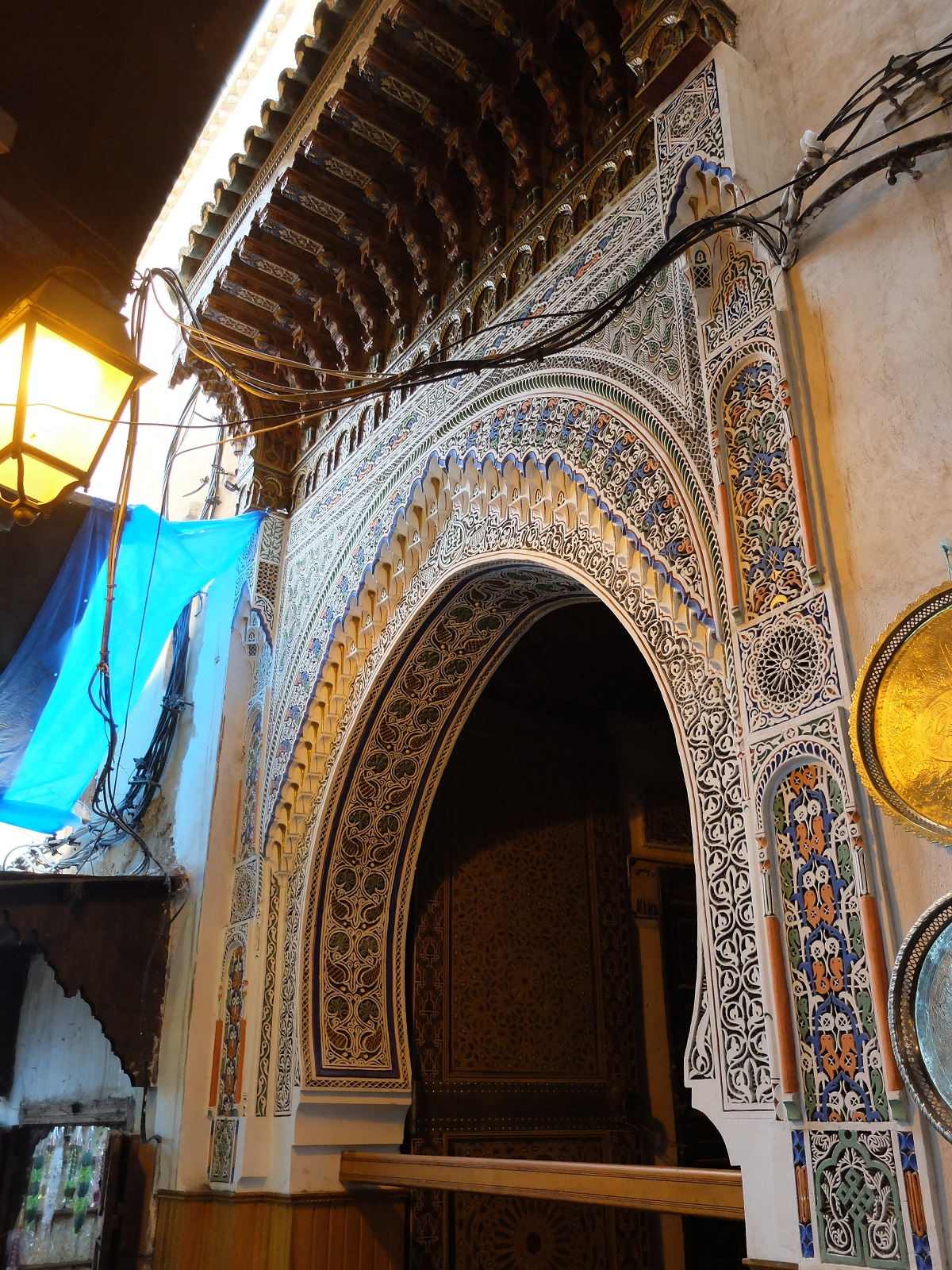 This portal is located on Tala'a Kebira and gives access to a street leading to the Zawiya of Moulay Idriss II. The wooden bar denotes the former limits of the zawiya's sanctuary.